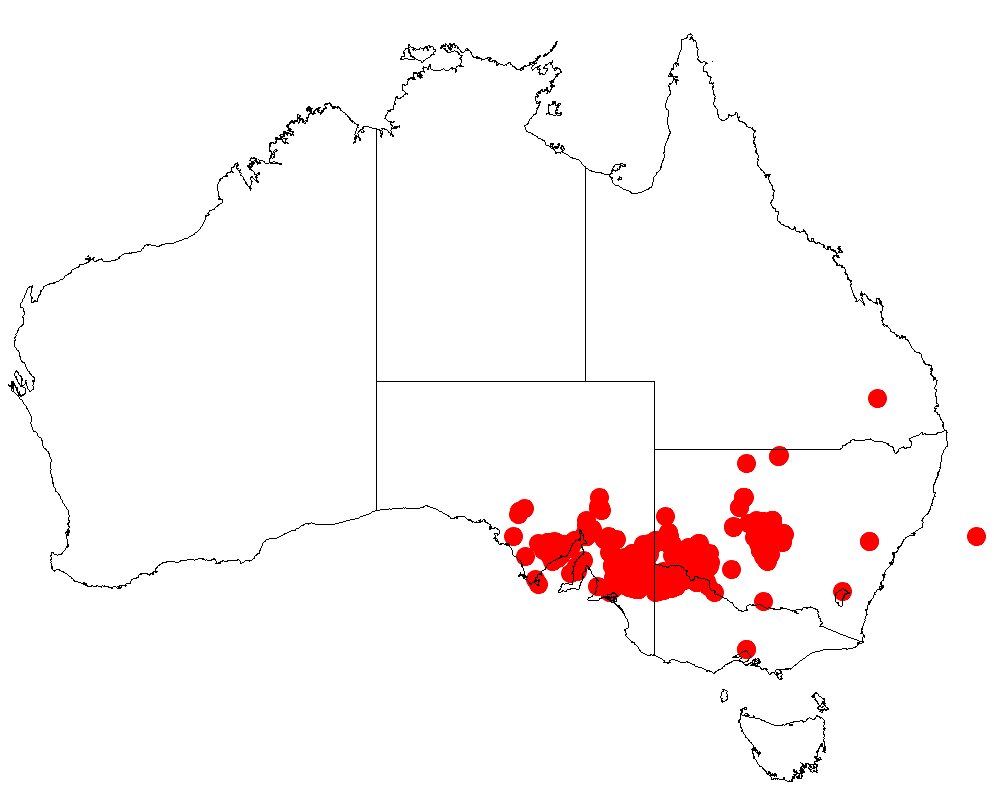 Acacia wilhelmiana occurrence data from Australasia Virtual Herbarium downloaded from on 8 December 2018